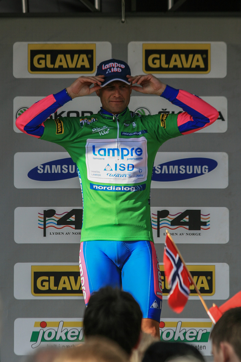 Alessandro Petacchi, wearer of the points jersey after the stage in Drammen.